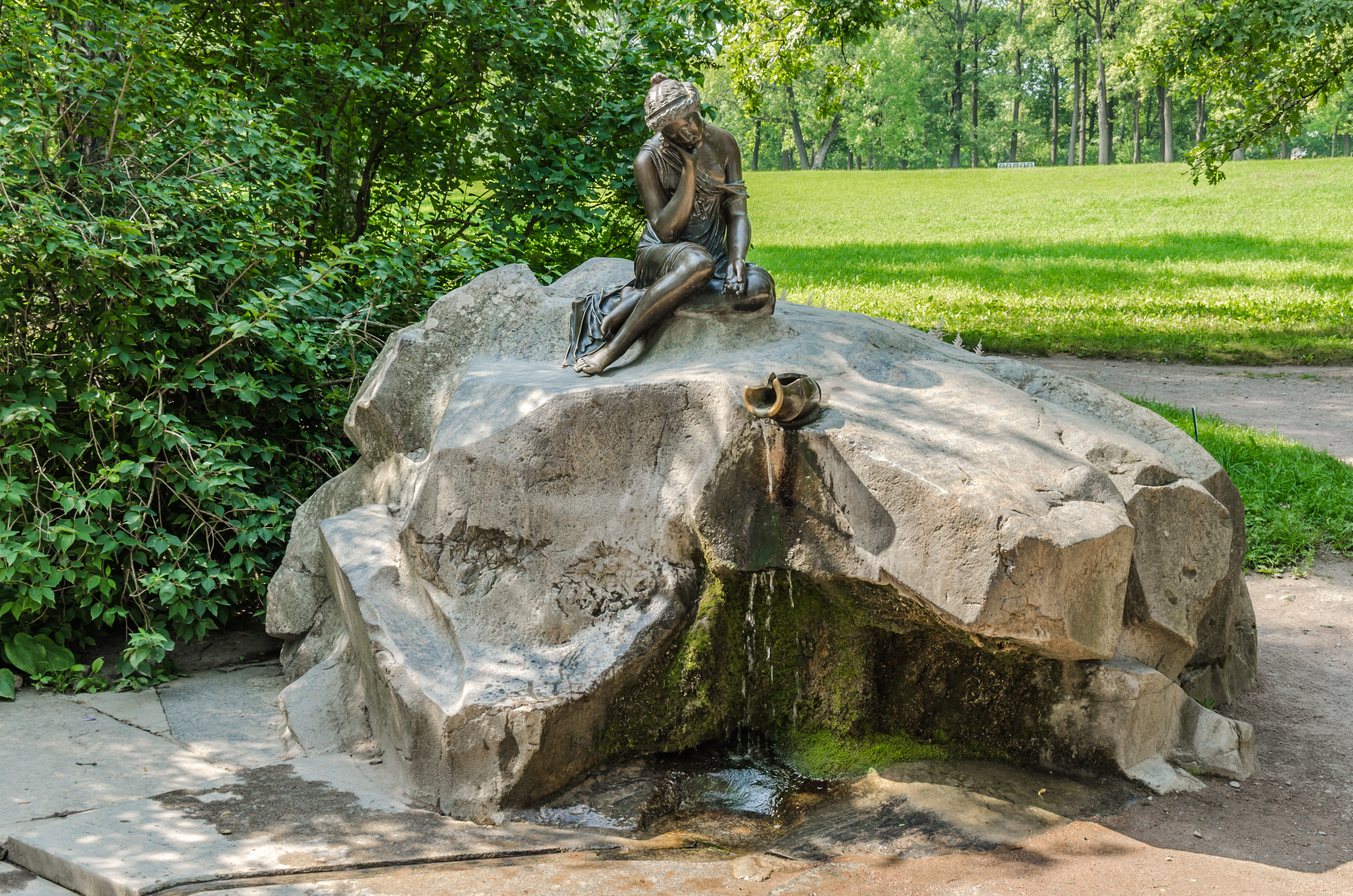 Foutain "Girl with a broken pitcher" in Catherine park of Tsarskoe Selo, Saint Petersburg